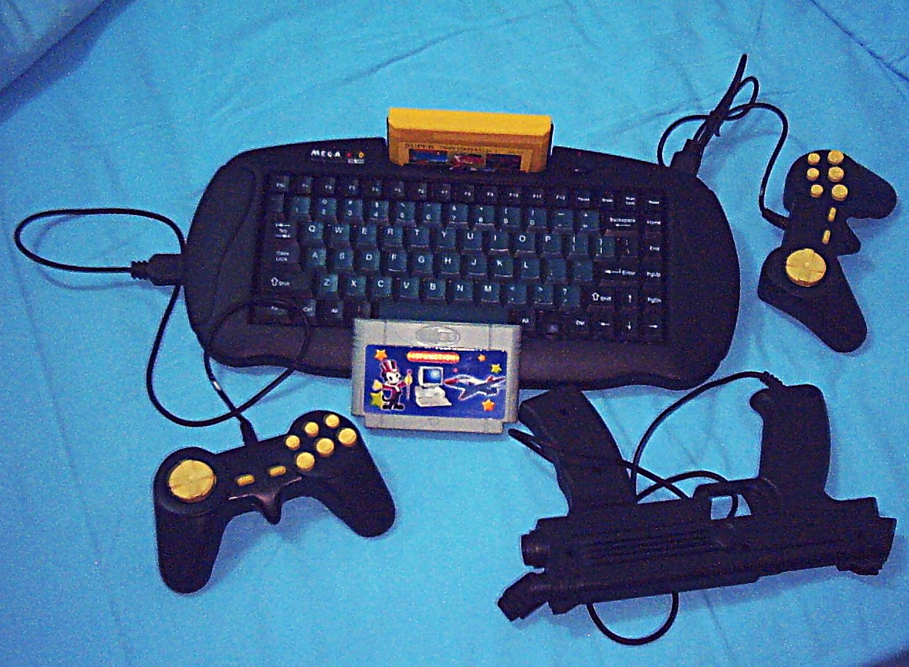 A relatively unusual NES hardware clone, the Mega Kid is essentially a NES-On-A-Chip system implementing the Famicom keyboard accessory, thus allowing it to use keyboard-based NES software. Note the realistic lightgun, a common feature of famiclones in many countries.